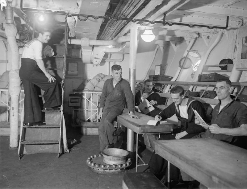 Interior Studies on Board a Frigate. 5 July 1943, on Board the River Class Frigate, HMS Mourne, at Liverpool. The stokers Mess decks on HMS MOURNE.